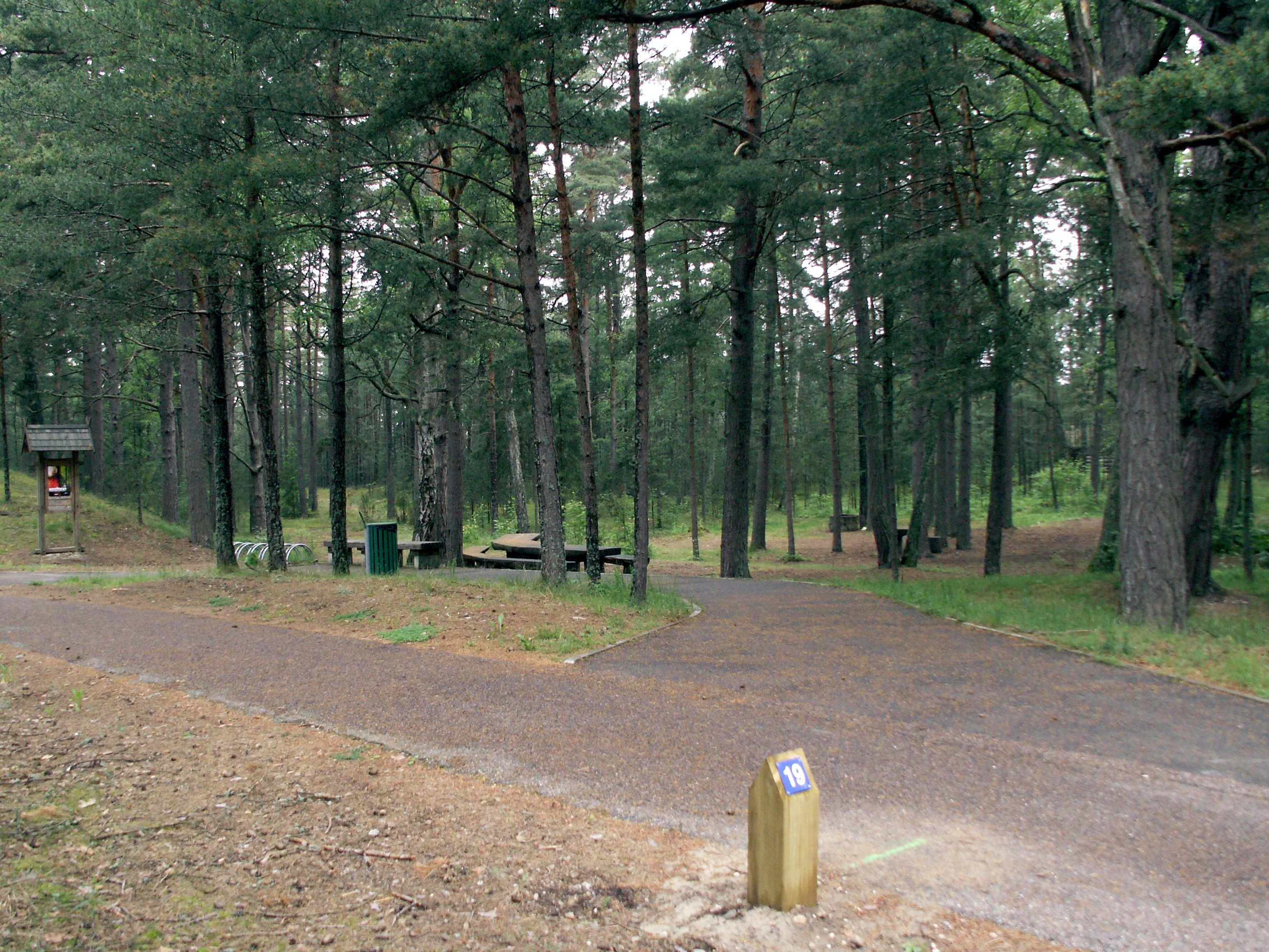 Vay of bicycles near Juodkrantė, Neringa district, Lithuania